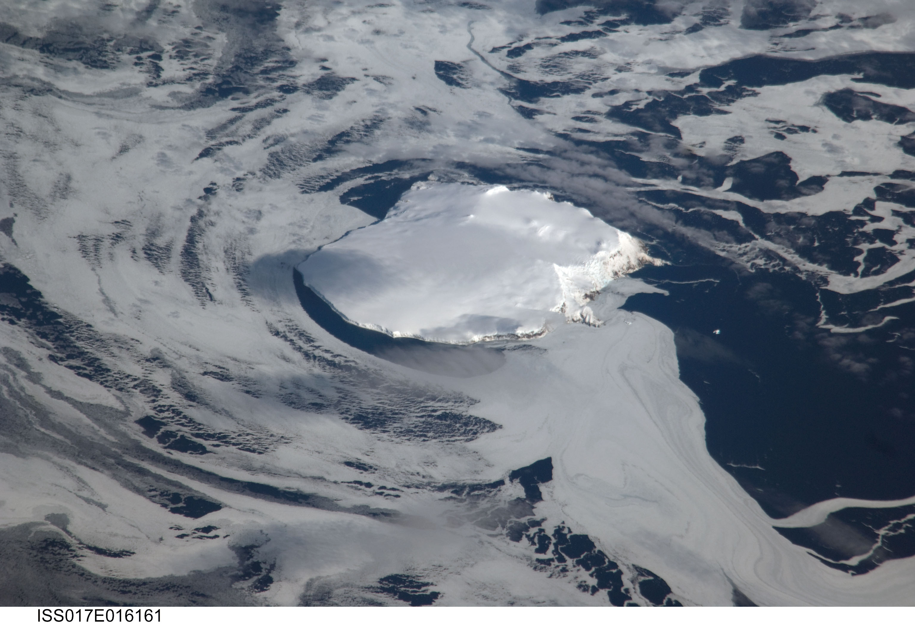 Bouvet Island. "Image courtesy of the Image Science & Analysis Laboratory, NASA Johnson Space Center." We recommend that the caption for any photograph published include the unique photo number (Mission-Roll-Frame), and our website (